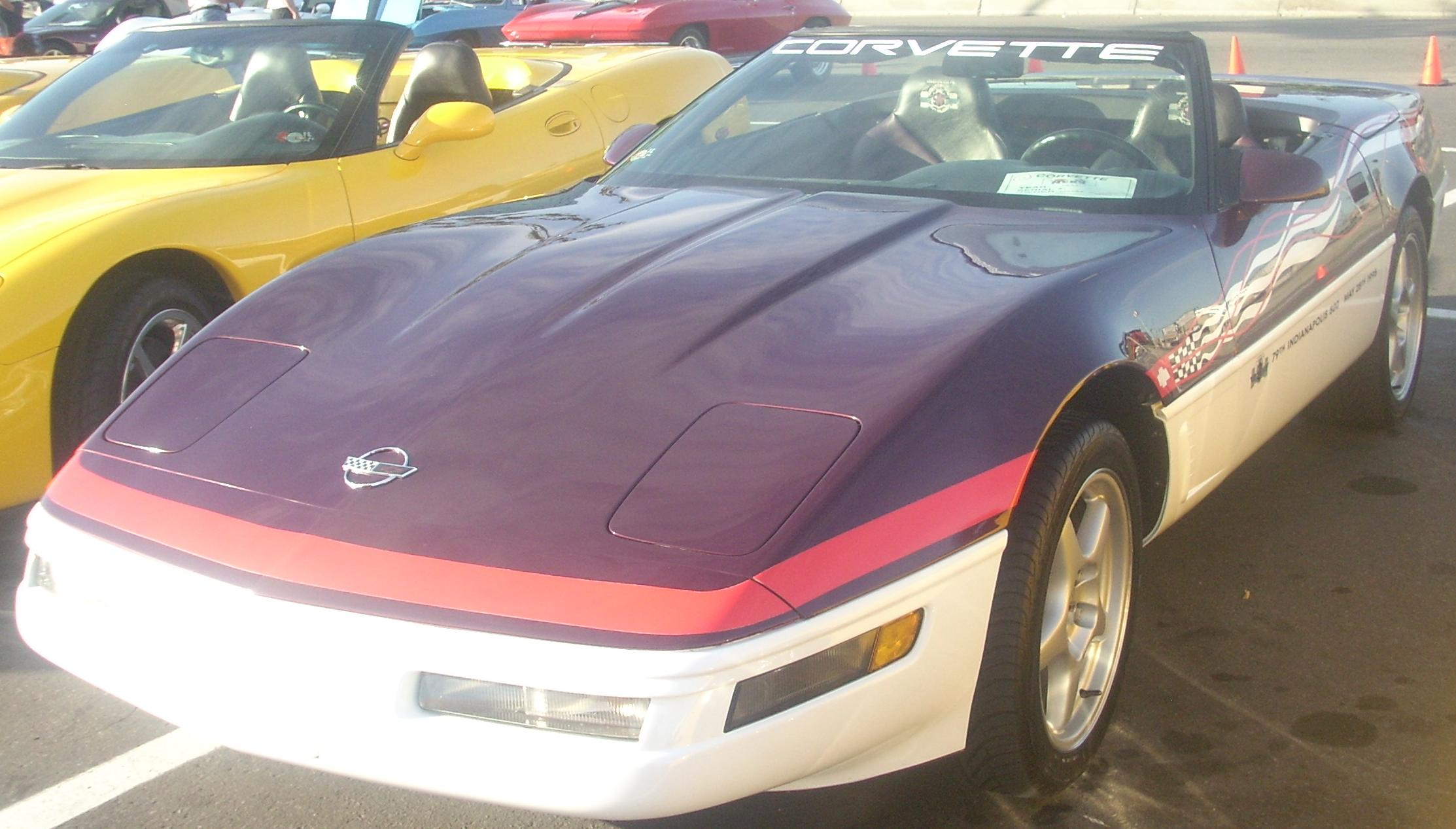 Chevrolet Corvette photographed in Montreal, Quebec, Canada at Gibeau Orange Julep.